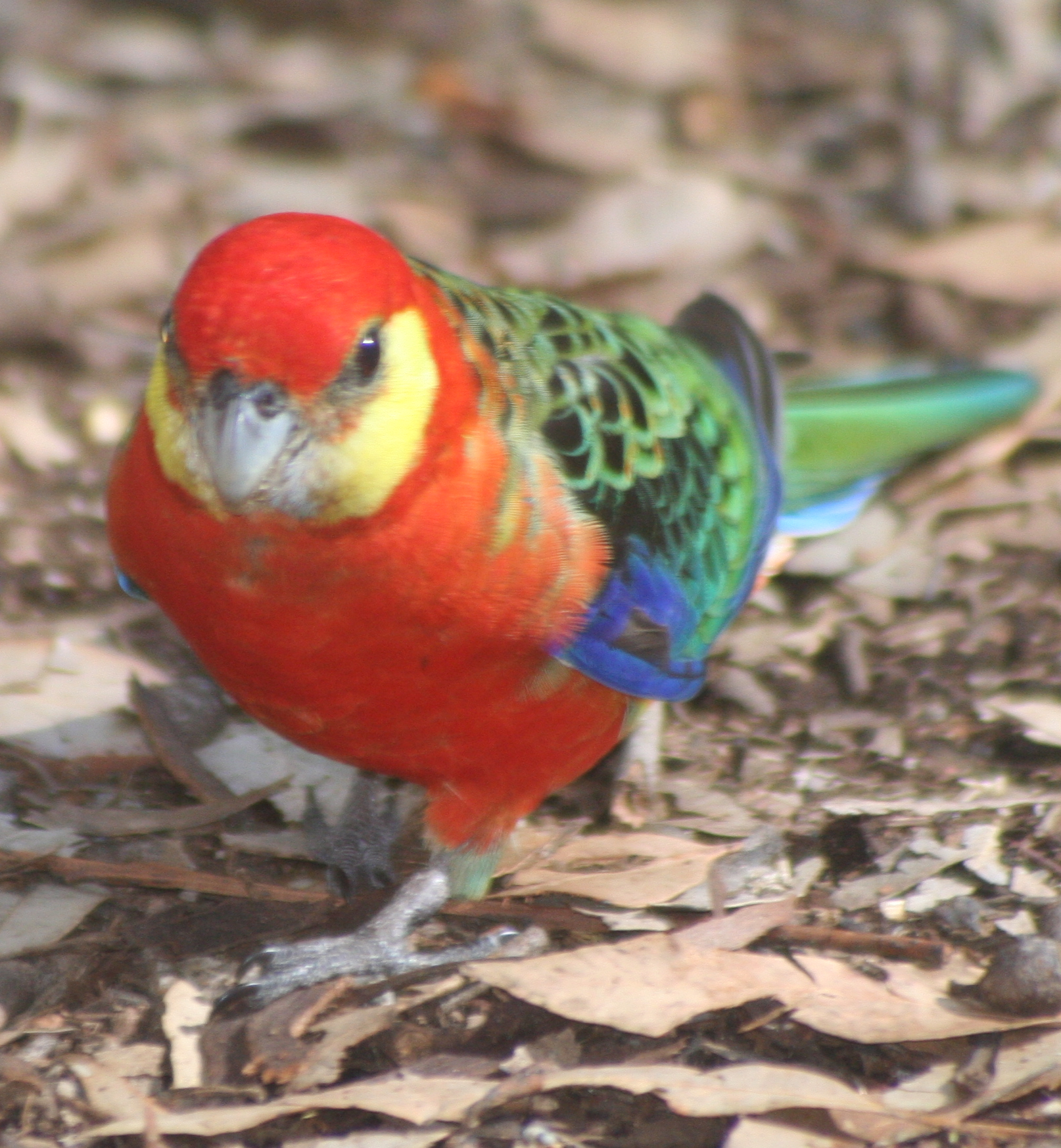 Crop to subject